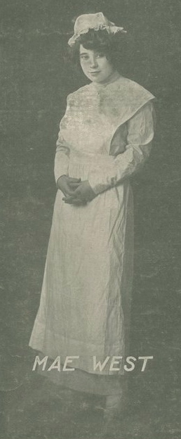 Photoportrait of young Mae West in a nurse's uniform. Cropped from "Good-Night, Nurse" sheet music cover.